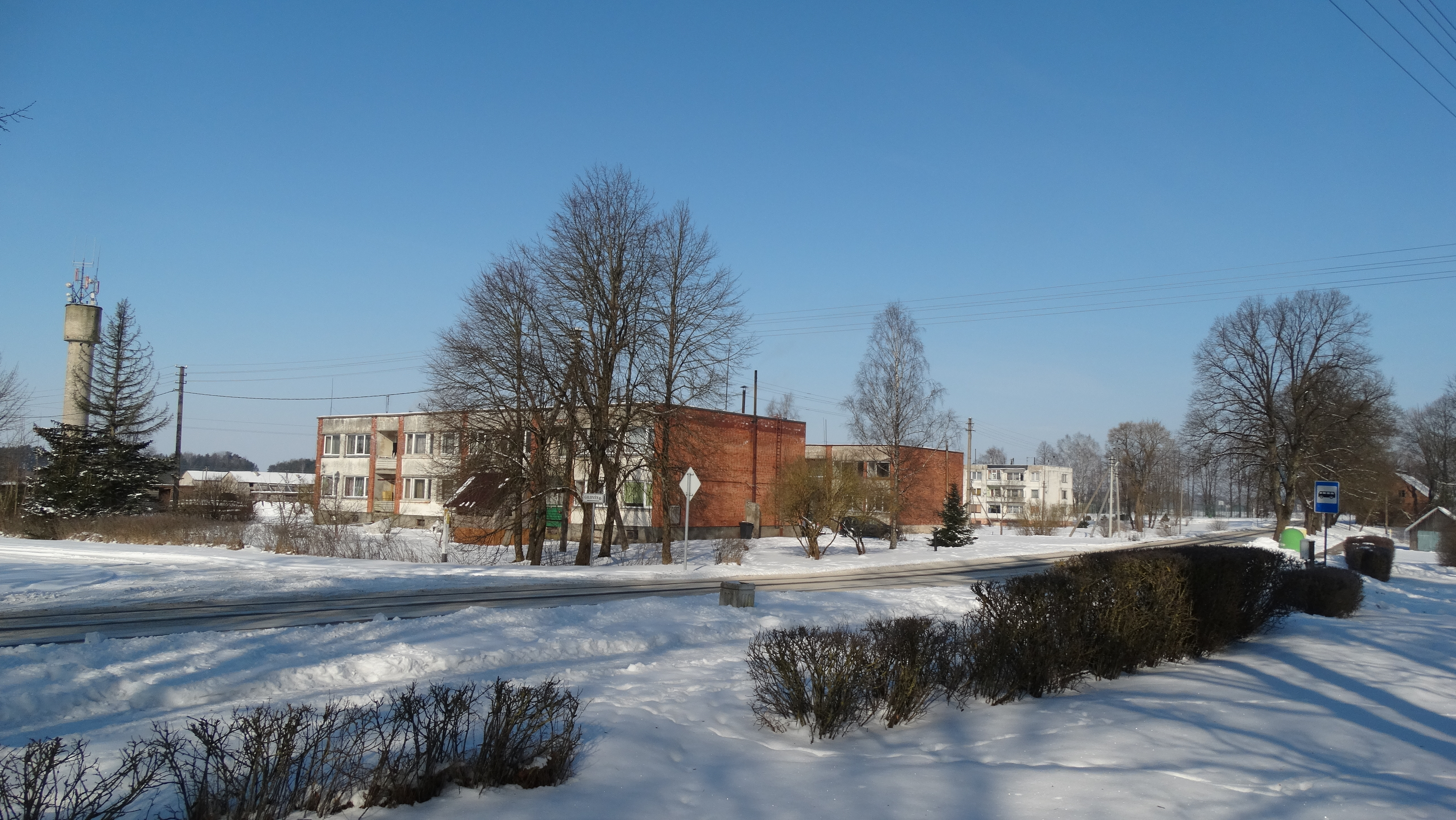 Žukai, Pagėgiai Municipality, Lithuania